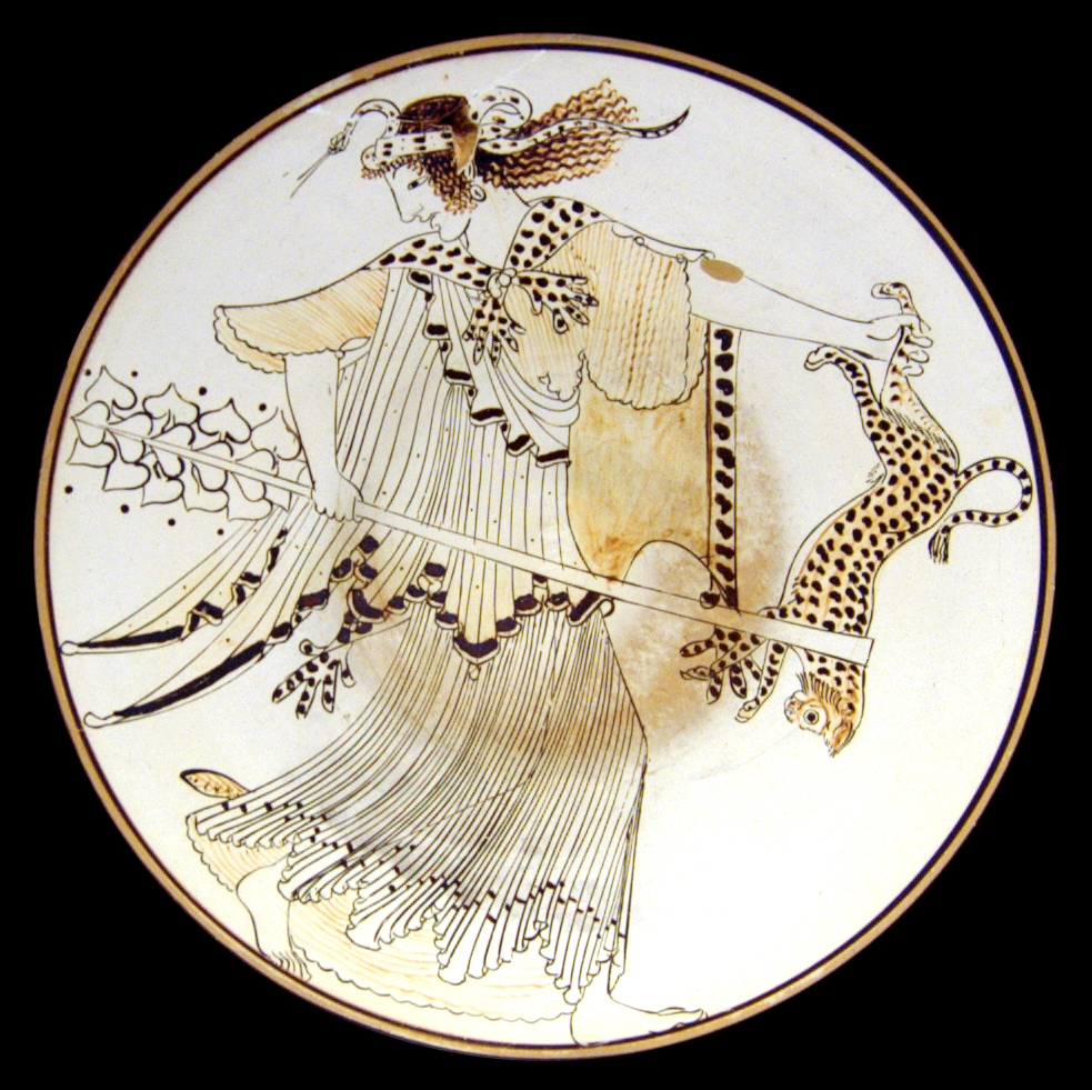 Furious maenad. She holds a thyrsus in her right hand and with her left hand shakes a panther in the air. A whistling snake is rolled up over her head like a diadem. Tondo of an Attic white-ground kylix, 490–480 BC. From Vulci.